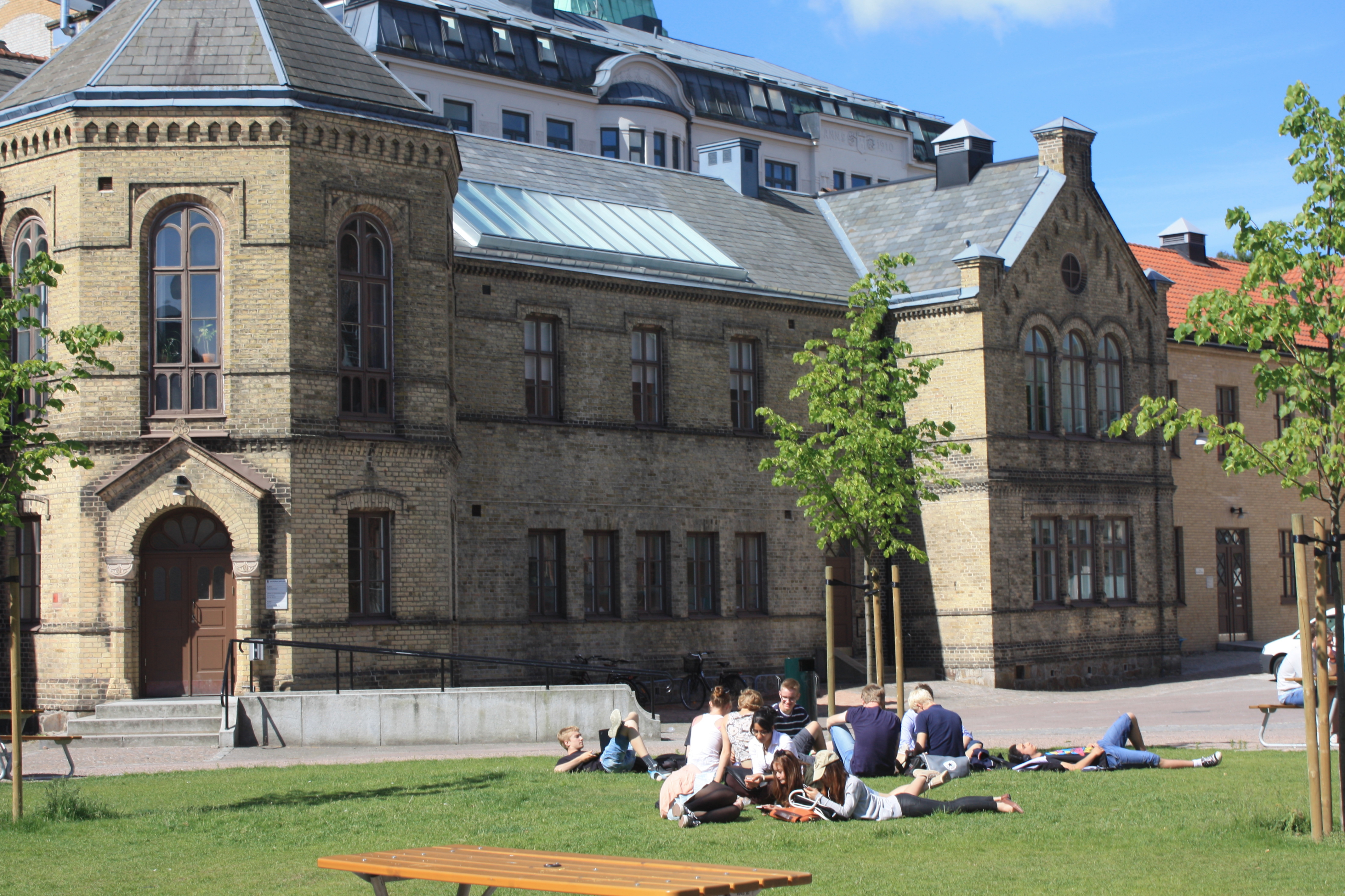 A group of students of Katedralskolan in the inner court